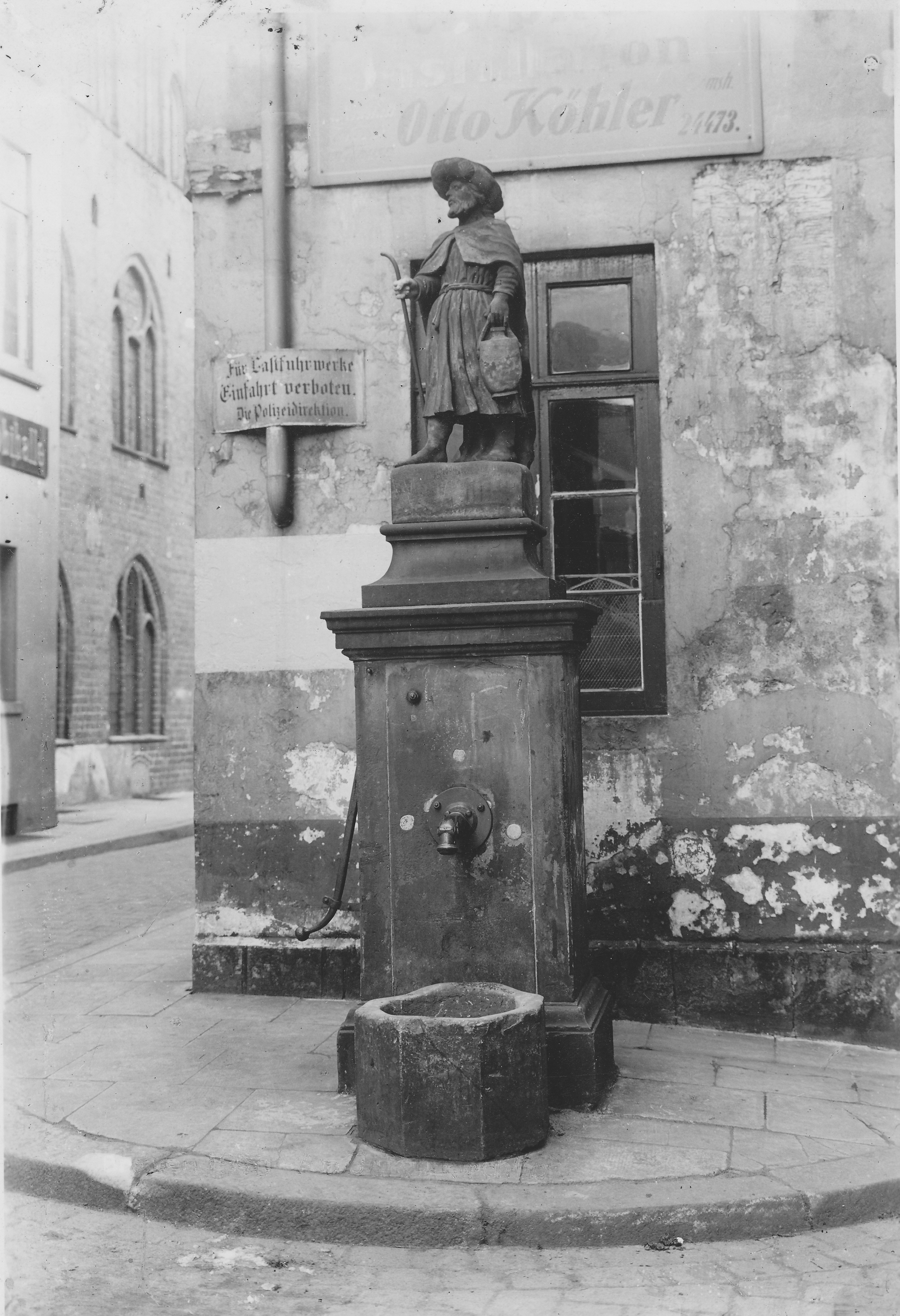 Jakobusbrunnen am Jakobikirchhof in Bremen, destroyed. 18th century (?).